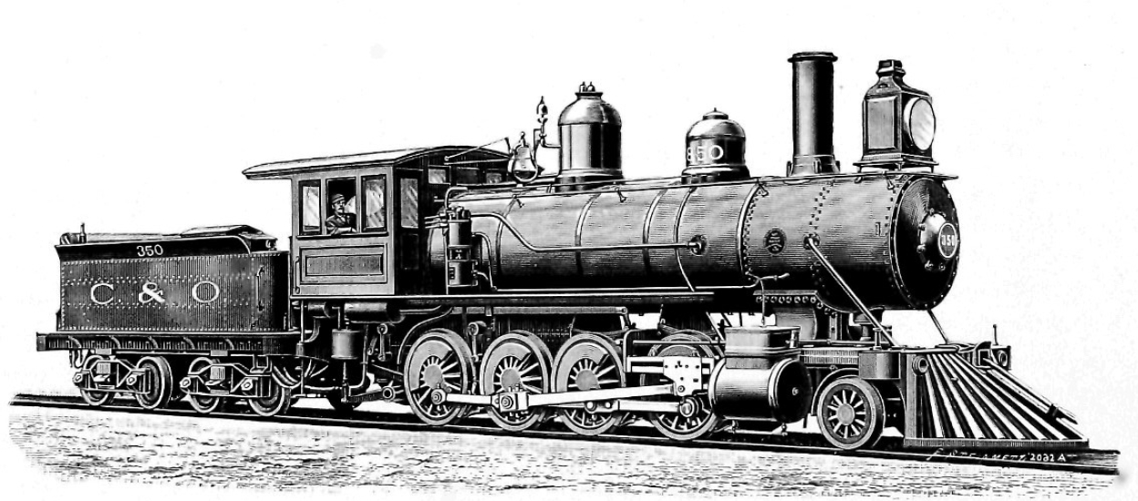 Ten Wheeled Consolidation Locomotive exhibited by the Richmond Locomotive Works, Richmond, Virginia, USA. Plate LXV from the book A record of the transportation exhibits at the World's Columbian Exposition of 1893 by James Dredge.